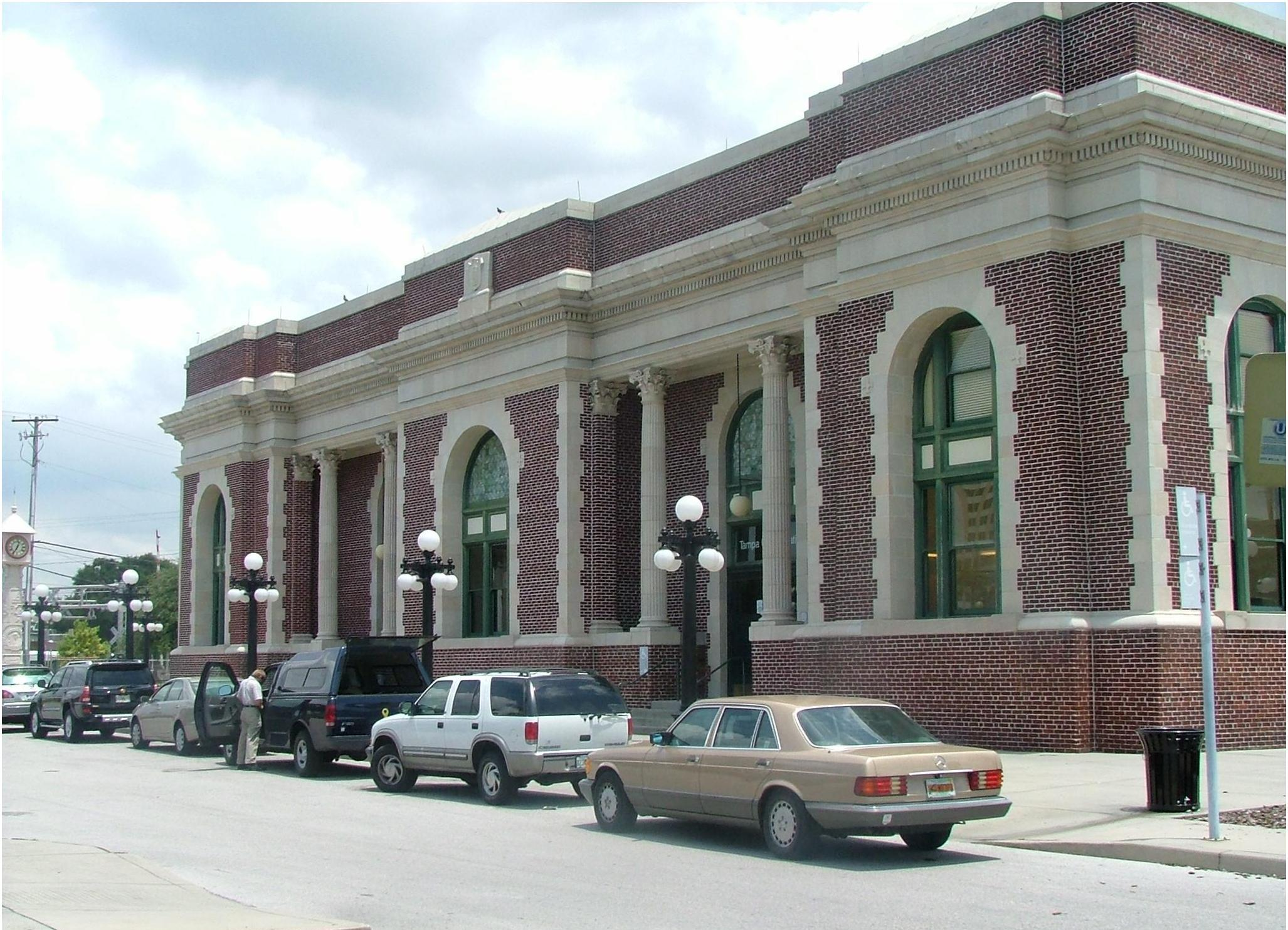 Tampa Union Station at train time